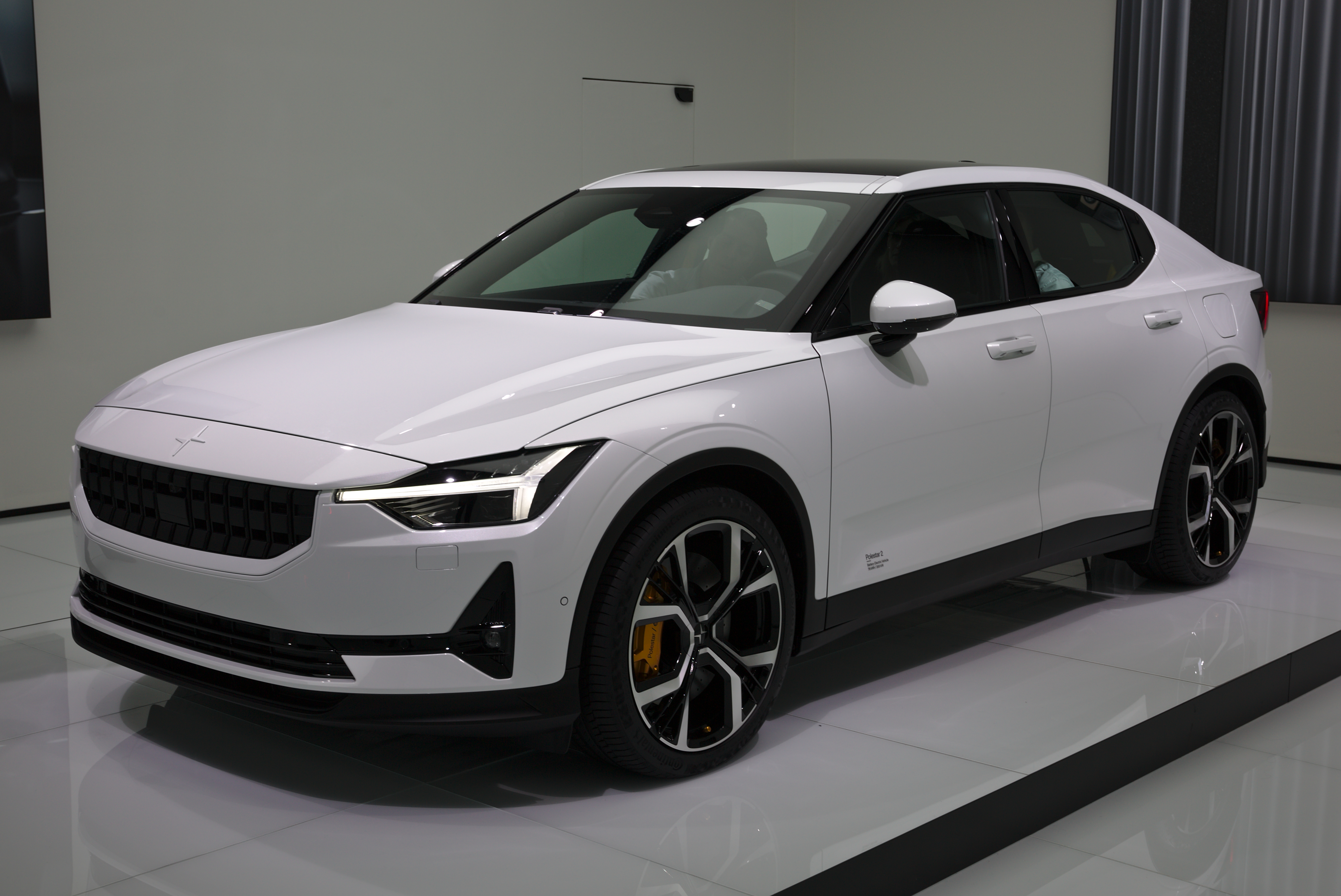 Polestar 2 at Geneva Motor Show 2019